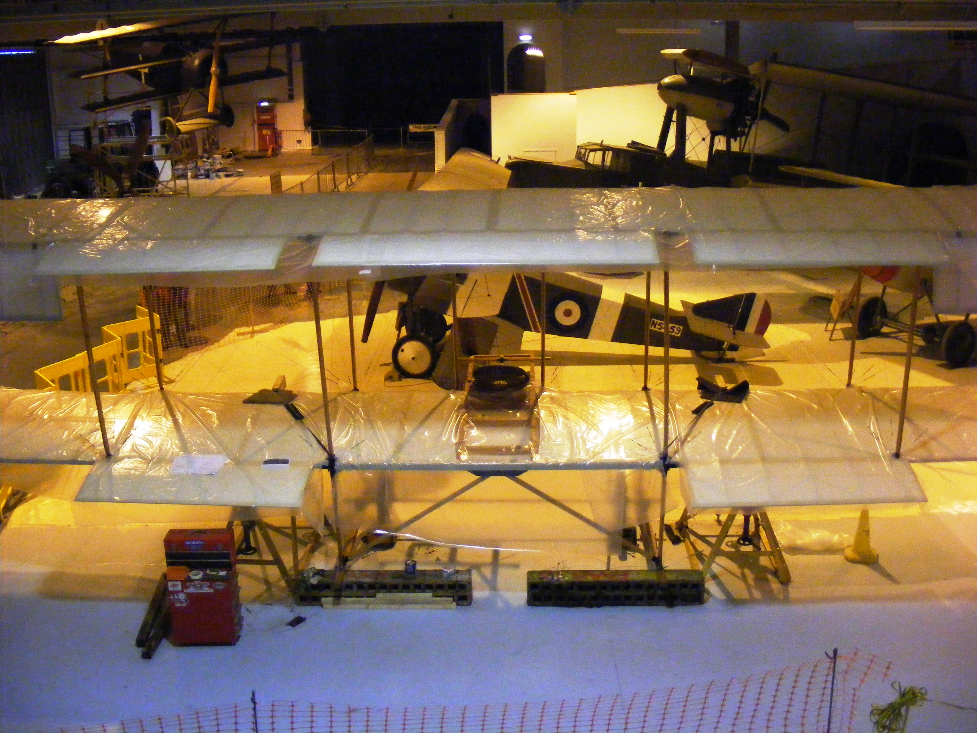 Hall 1 exhibition at the Fleet Air Arm Museum undergoing rebuilding